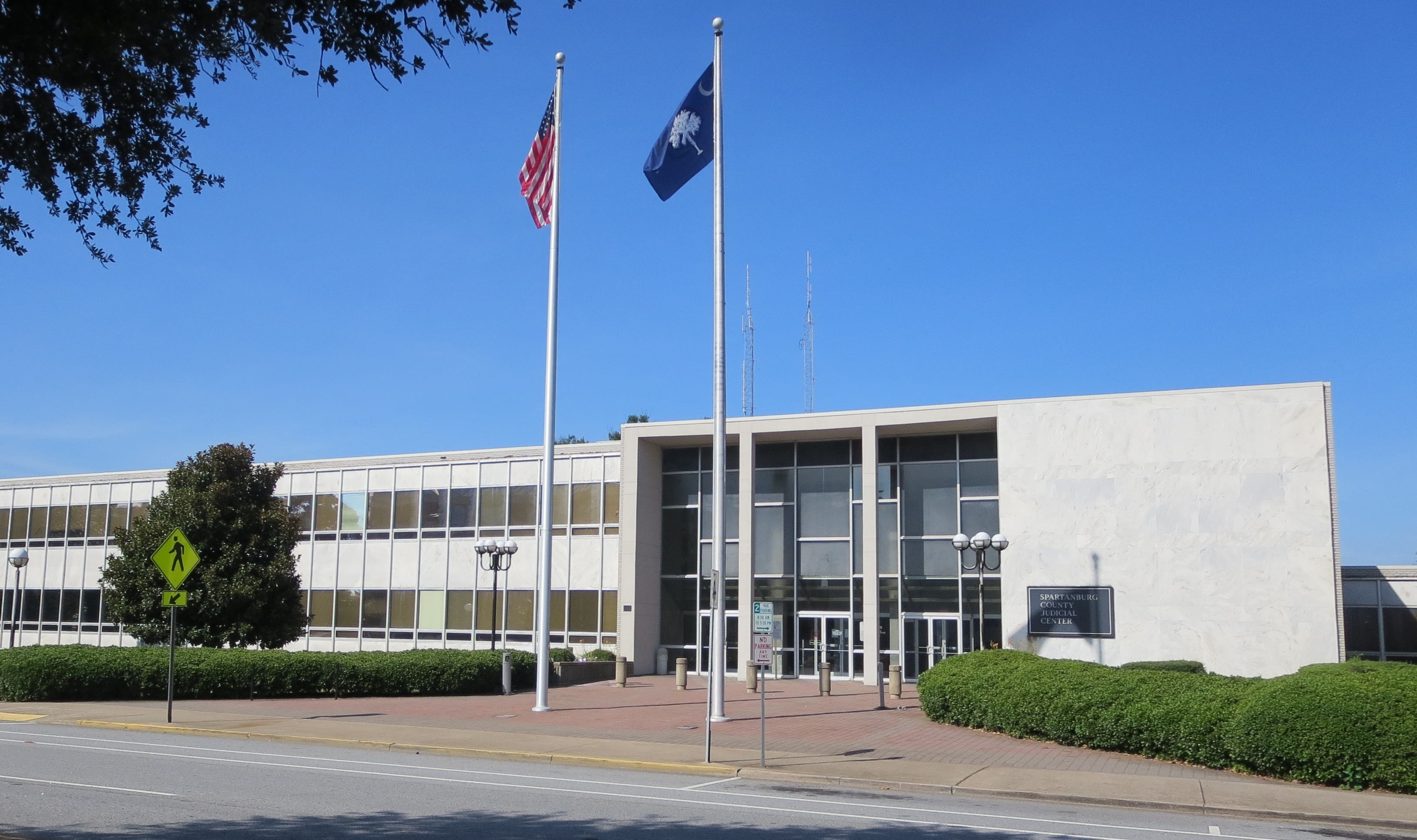 The current Spartanburg County Courthouse is the fifth courthouse in Spartanburg's history and was built in the late 1950s.